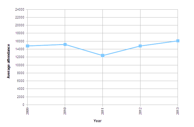 A graph of average league attendances at Swedbank Stadion in the period from 2009 to 2012.